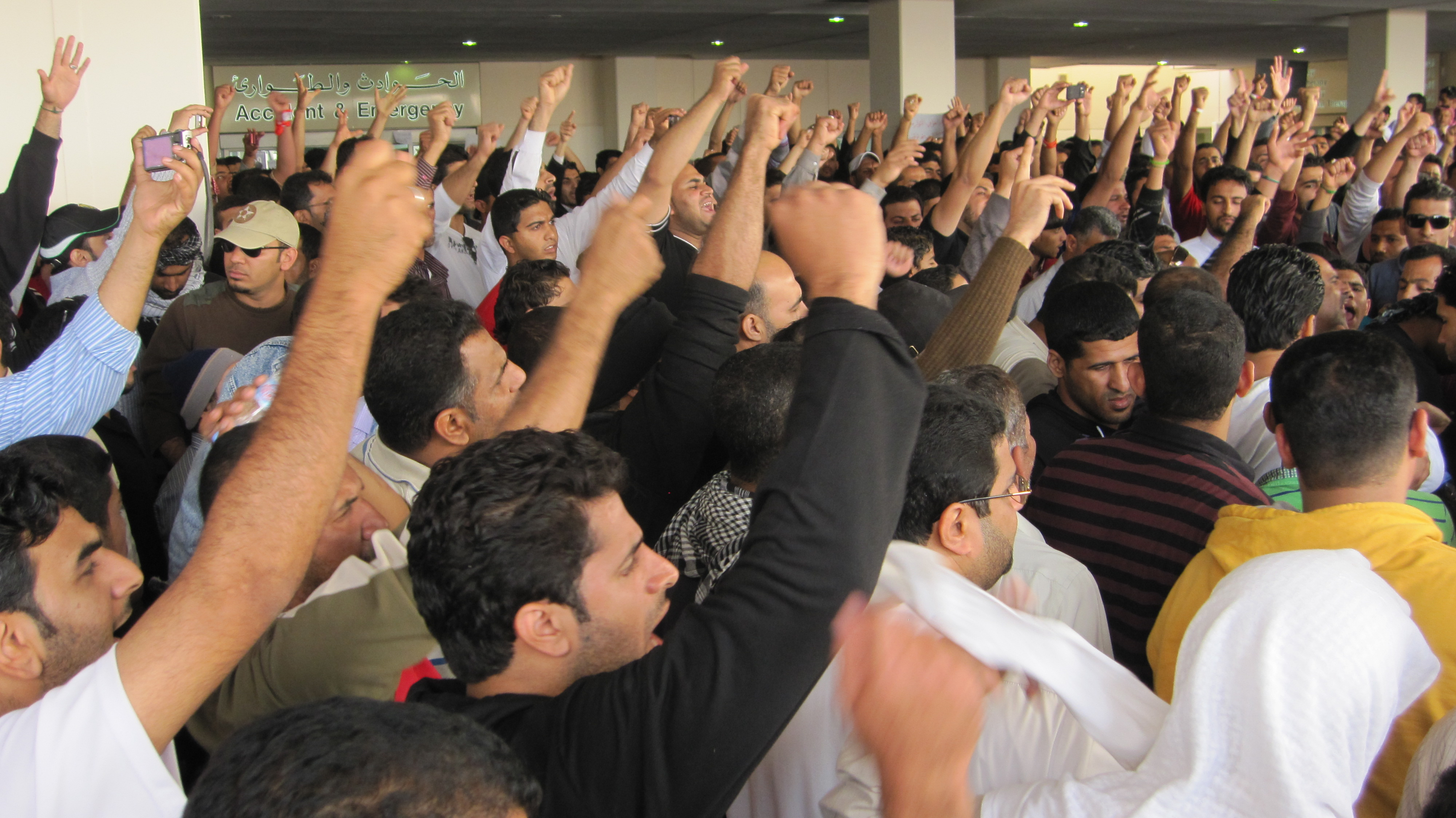 The protesters also included chants that cited various important Shia figures.